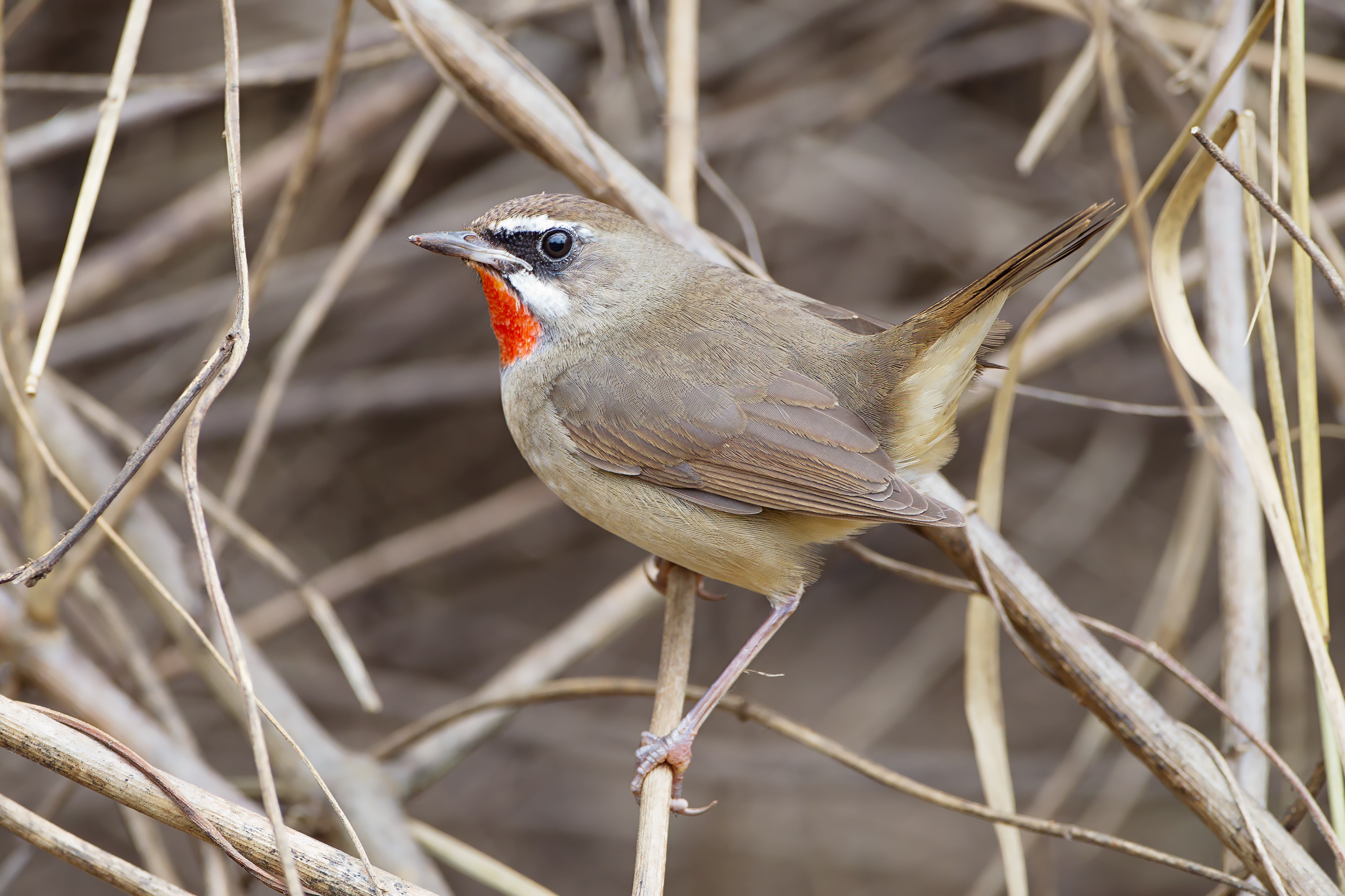 Siberian Rubythroat (Luscinia calliope) male, Pak Chong District, Nakhon Ratchasima, Thailand